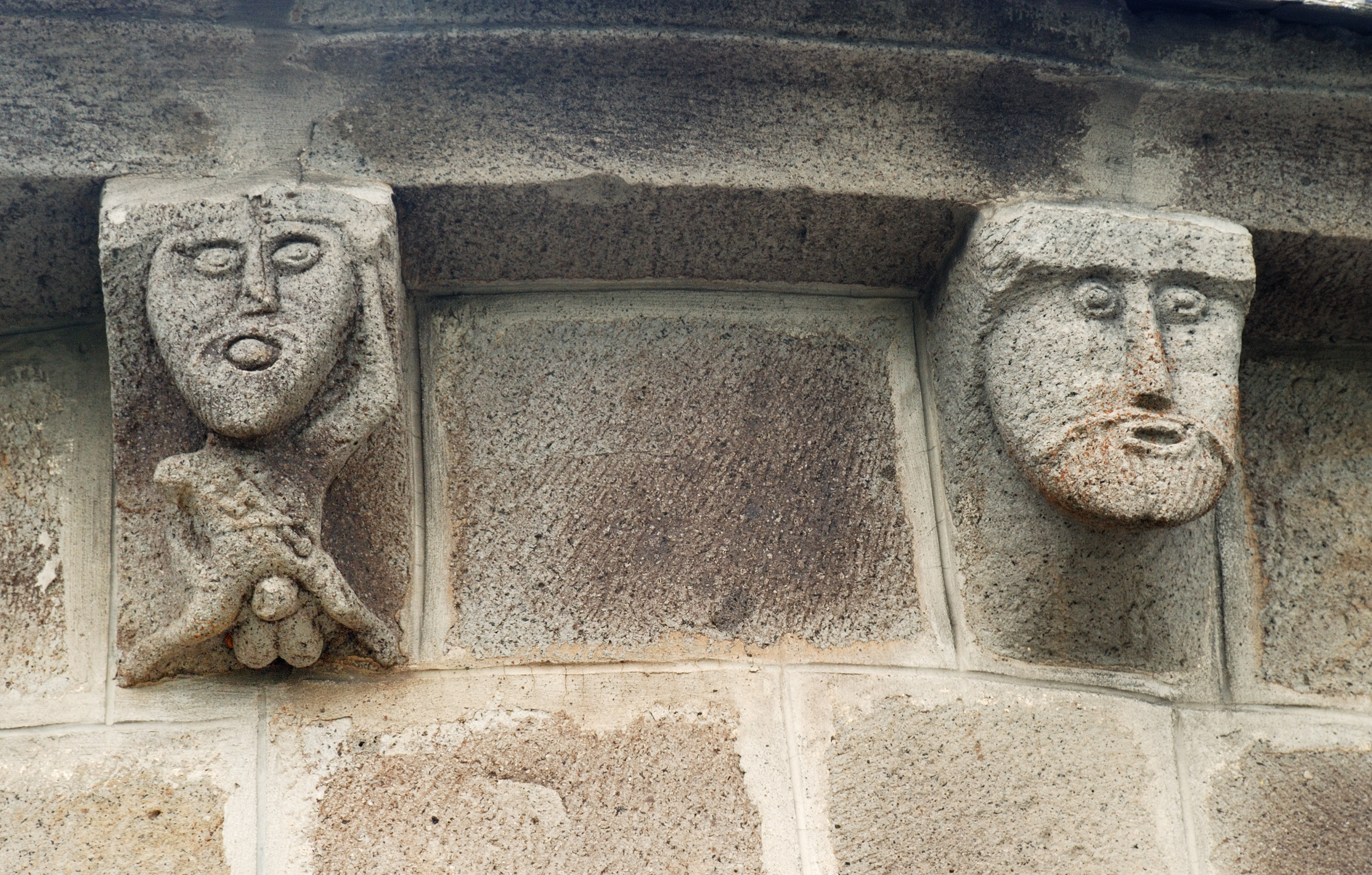 la Godivelle : 2 of the church corbels which represent the Seven deadly sins (Puy-de-Dôme, France). Translations in other languages are welcome.